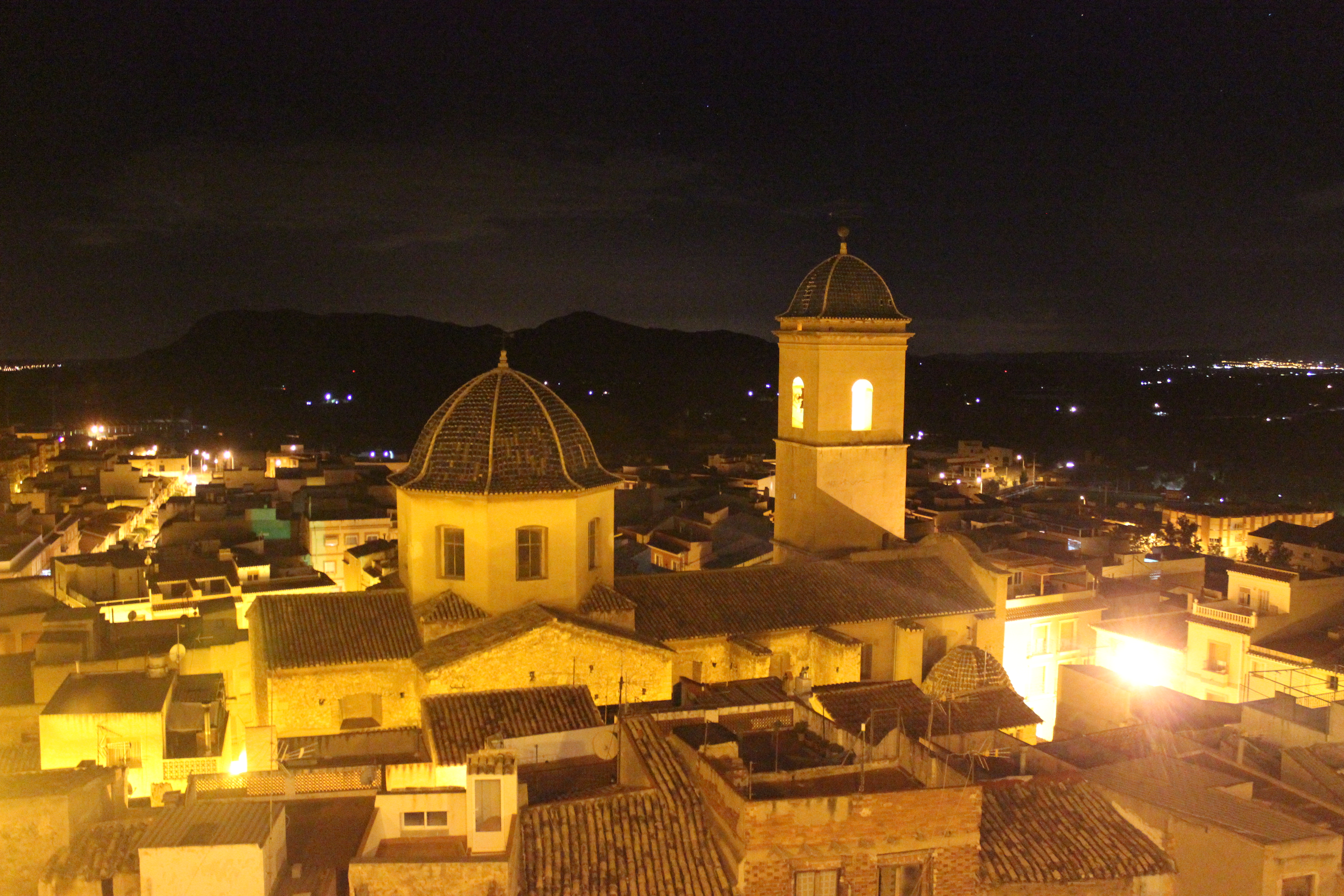 Nightview of Agost, with Saint Peter´s church, as seen from the Castle